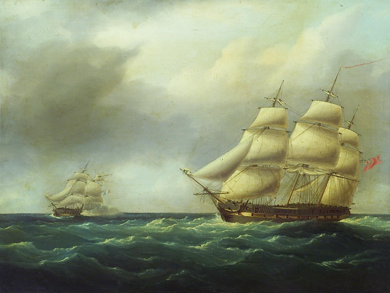 oil on canvas on board; 460 x 600 mm In the right foreground is the Hydra, in port-bow view, sailing close-hauled on the starboard tack. In the left middle distance is the Furet, also port-bow view, firing a gun at the Hydra while her main top-gallant mast is falling. George Chambers senior (1803-40), painted another version of this action for Mundy in 1832, with a pair to it of Hydra at Cape Bagur in 1807 (see also BHC0577). The Chambers pictures were subsequently lithographed by Paul Gauci but that of the Furet action (NMM PAG7115) does not relate to this interpretation of it. This painting is apparently the pair to BHC0577, being acquired with it for the Museum by Sir James Caird in 1928 as part of the Macpherson Collection.